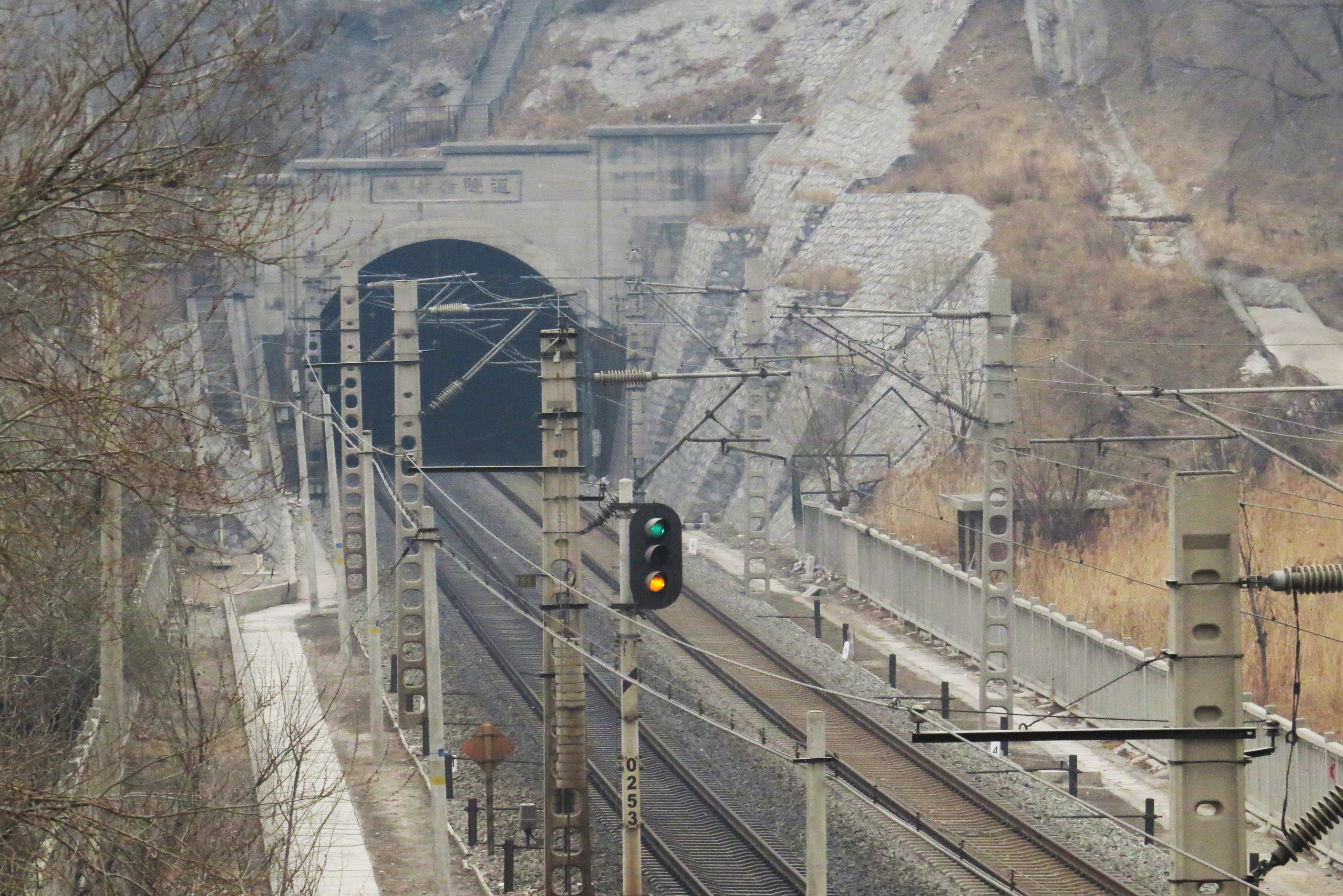 It simply read "Huaishuling Tunnel" in Chinese. Southbound trains will pass Houlücun Railway Station after crossing this tunnel. Note the passageway...